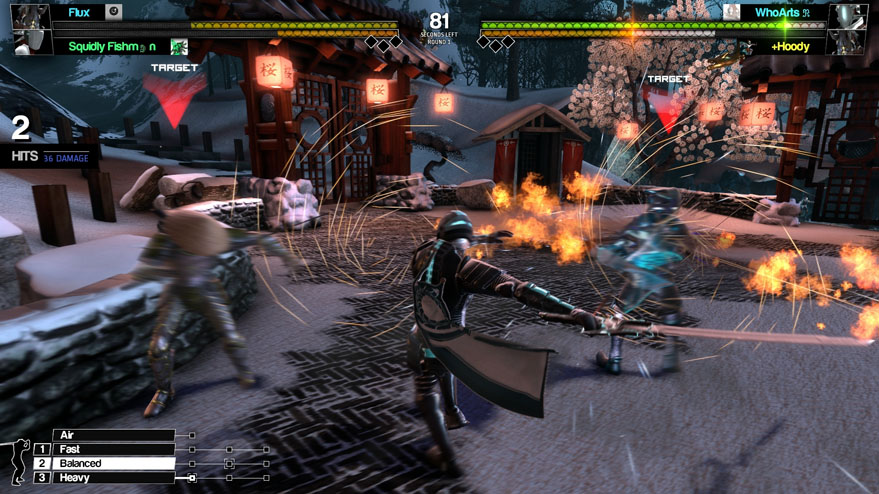 Blade Symphony screenshot showing a multiplayer battle. Released in 2014, the game was developed by Puny Human and is powered by the Source engine.